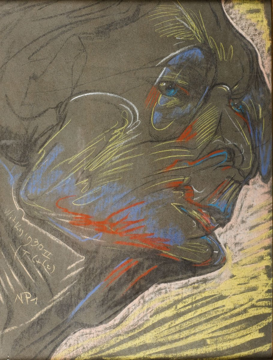 "Portrait of Teodor Białynicki-Birula" (1930) pastel on paper, 64 x 48 cm